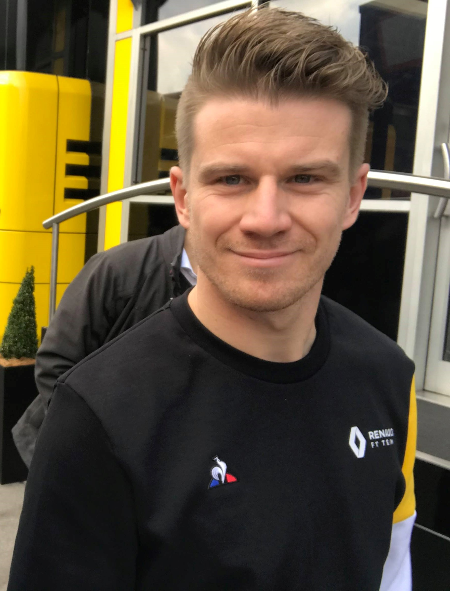 2019 Formula One tests Barcelona, Hulkenberg.